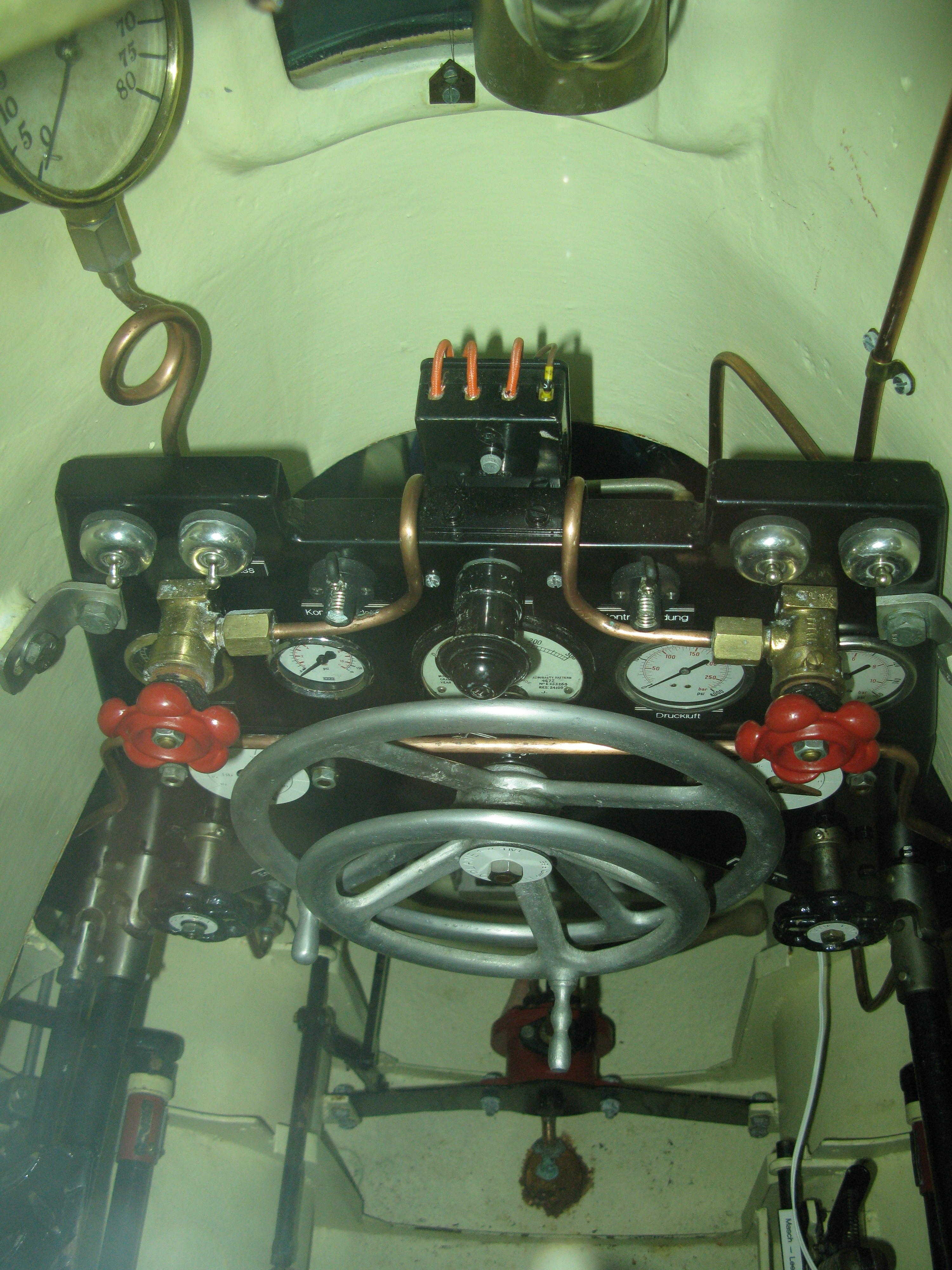 Photo of the controls of a biber submarine